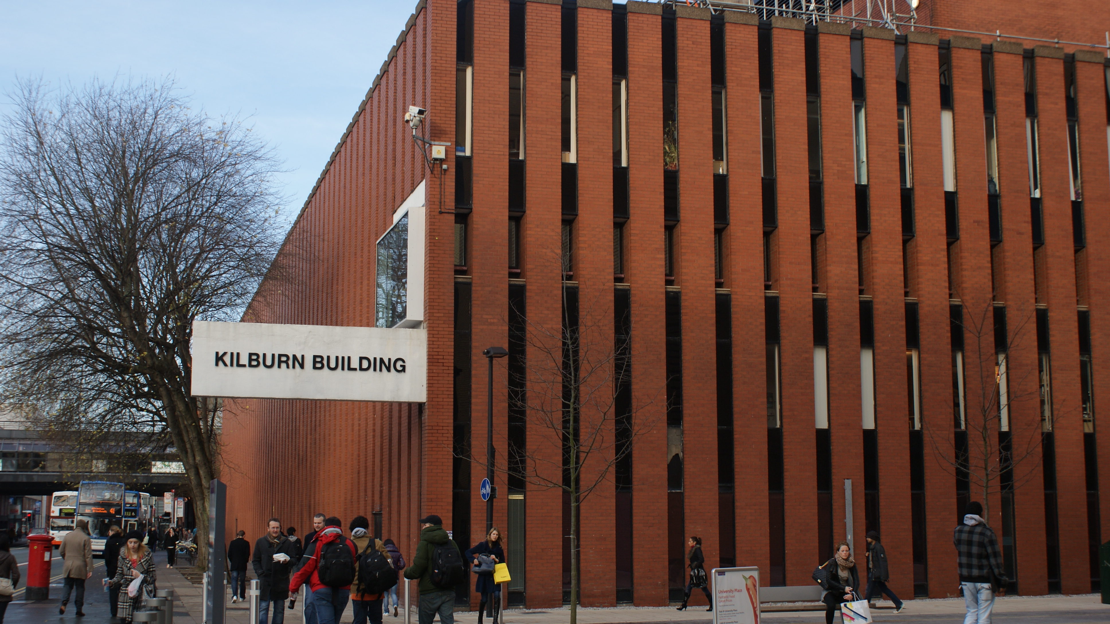 A photograph of the Kilburn Building at the University of Manchester